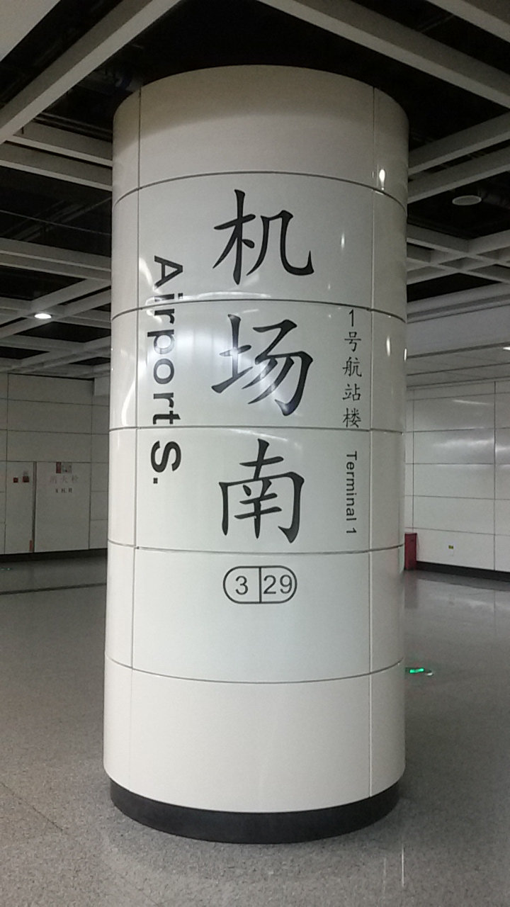 WORD on PILLAR for Airport South Station in Guangzhou Metro.